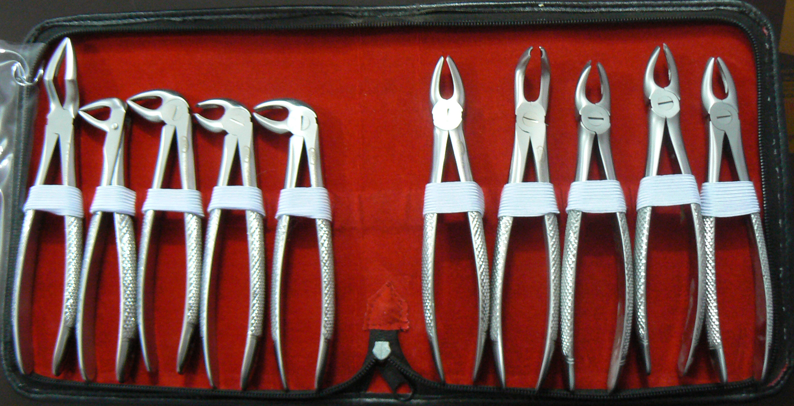 Dental forceps set